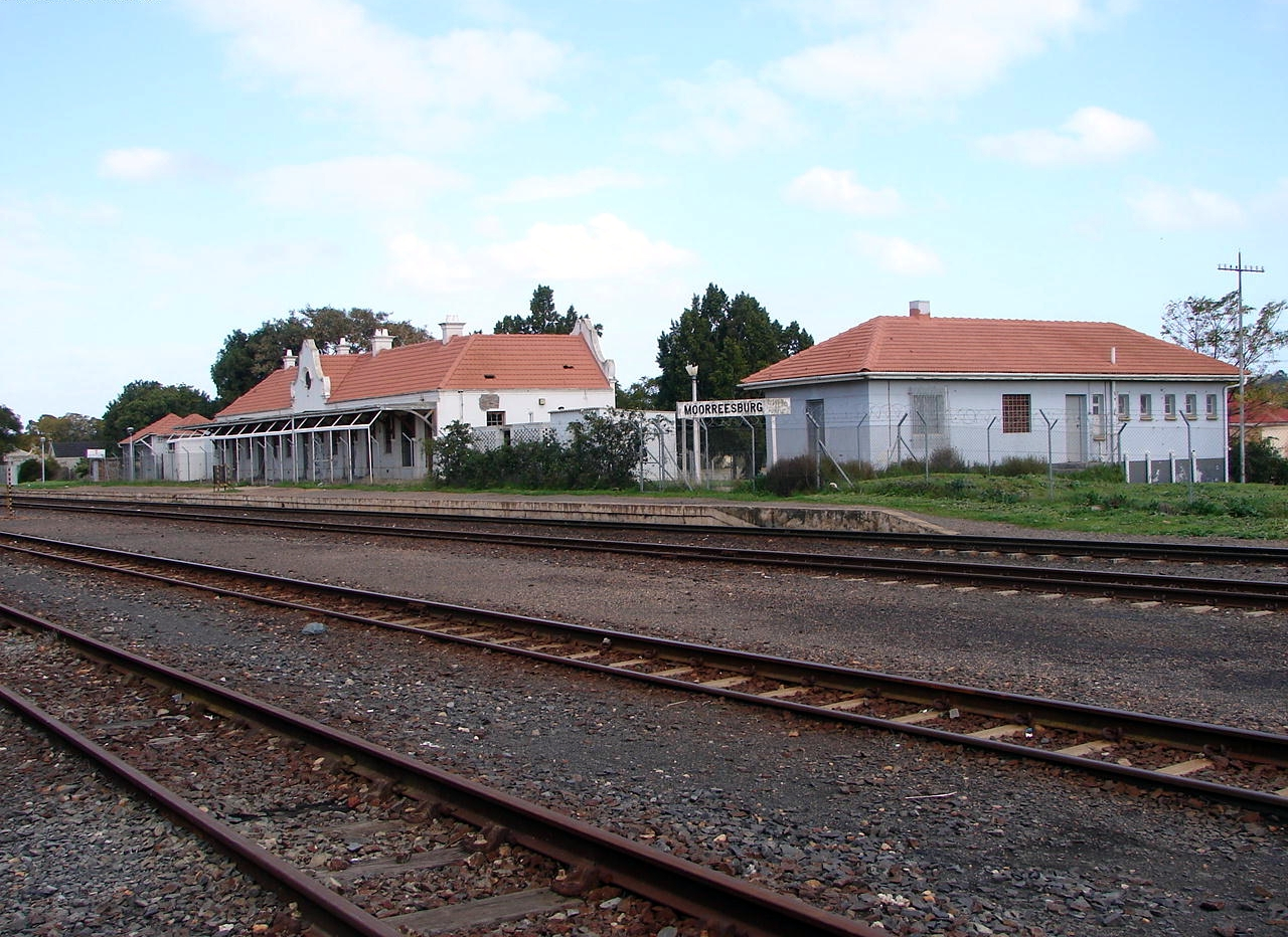 Moorreesburg station, Western Cape